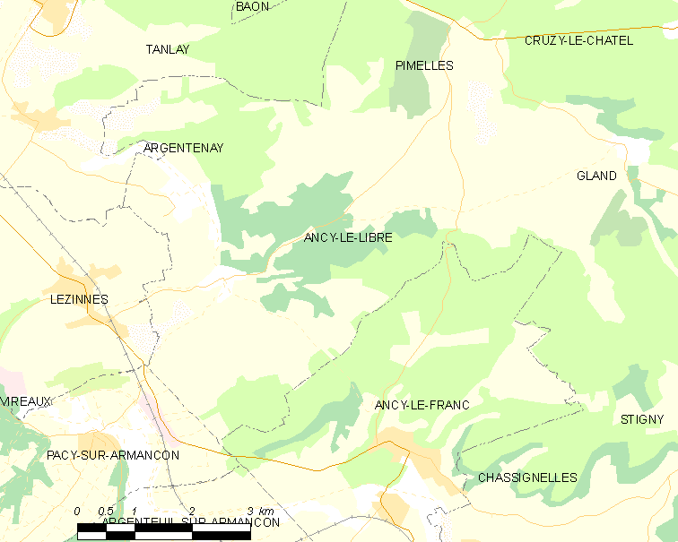 Map of French municipality Ancy-le-Libre